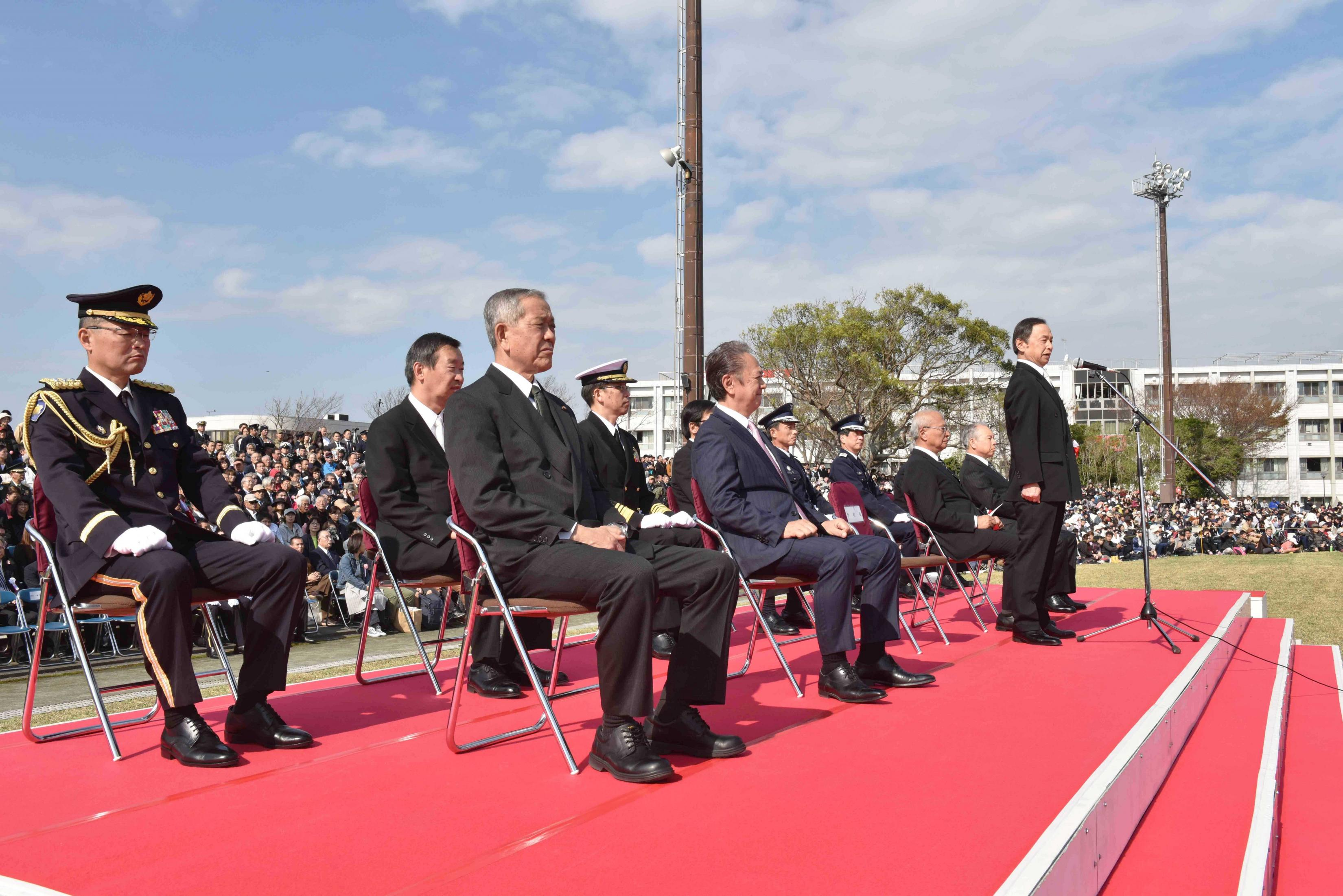 Ryōsei Kokubun, President of the National Defense Academy, addressed the NDA Anniversary Festival at the National Defense Academy in Yokosuka City, Kanagawa Prefecture on November, 2018.